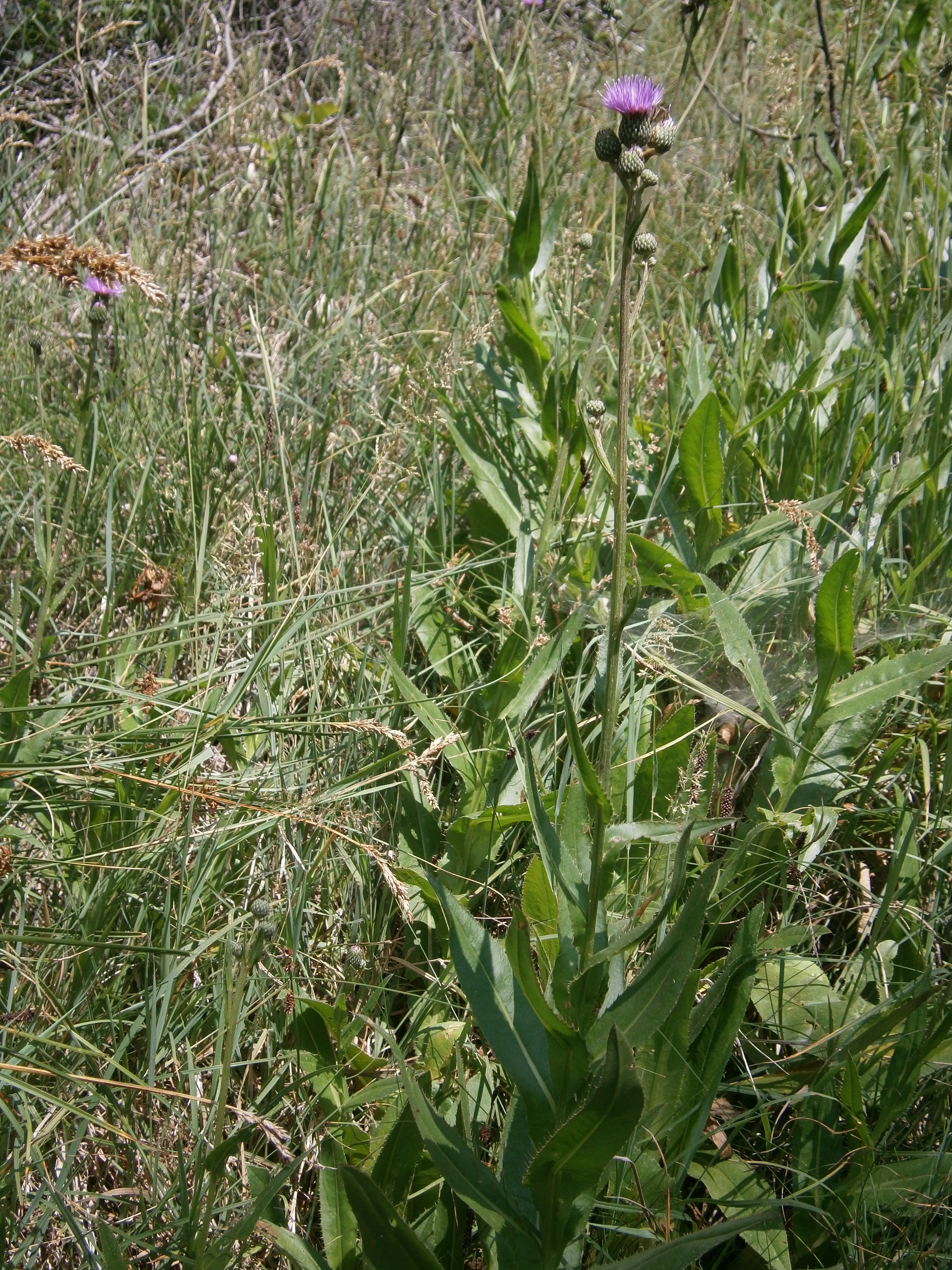 Cirsium heterophyllum